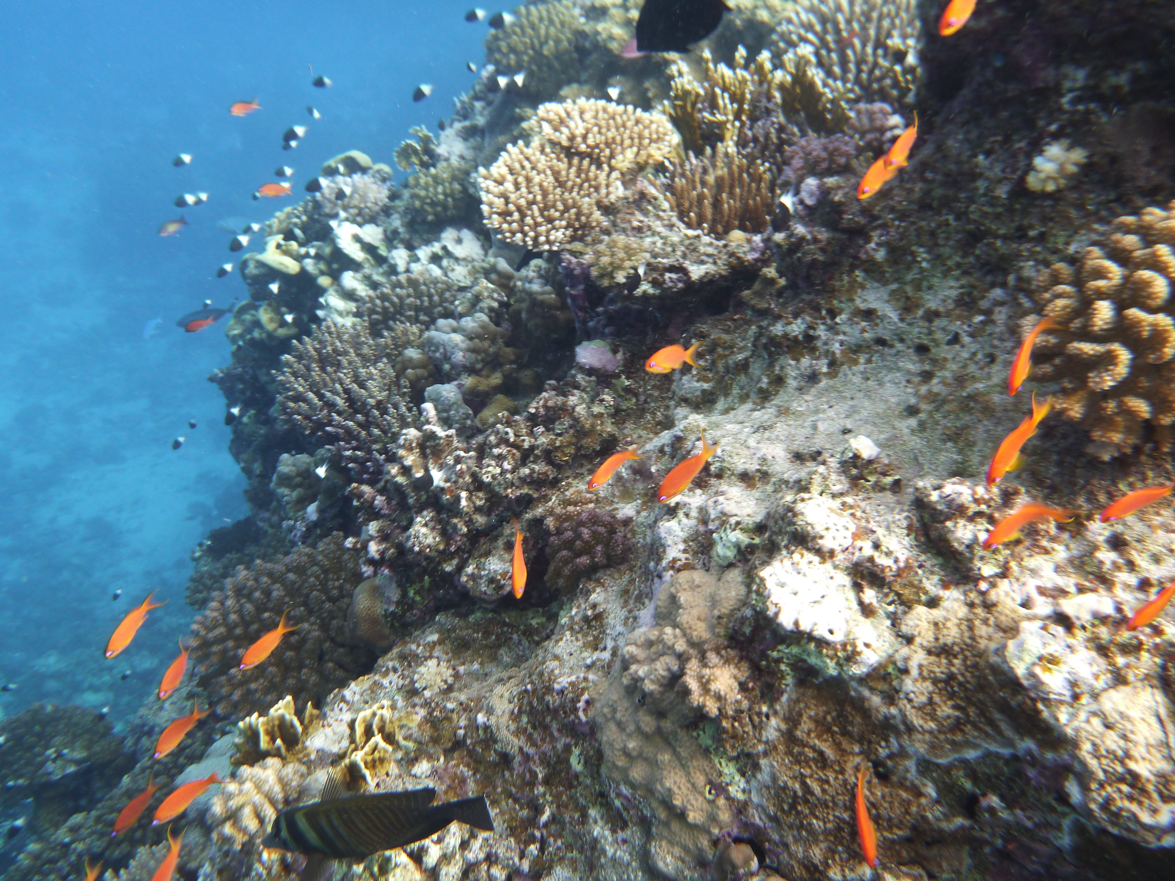 Red Sea Coral Reef at Egytian coast, north of Marsa Alam